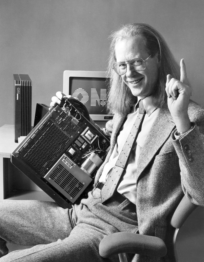 "Nick DeWolf shows off his newest creation, the ON! System, an innovative office computer system that features built-in power protection from power disturbance outages; a solid-state, two megabyte memory with built in office-task software; and the smoothest, speediest response time to user commands."